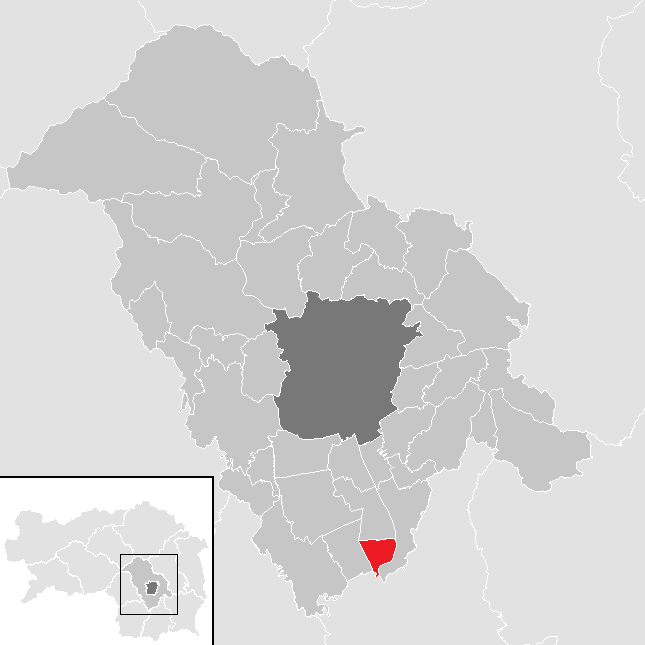 District Graz-Umgebung, Styria